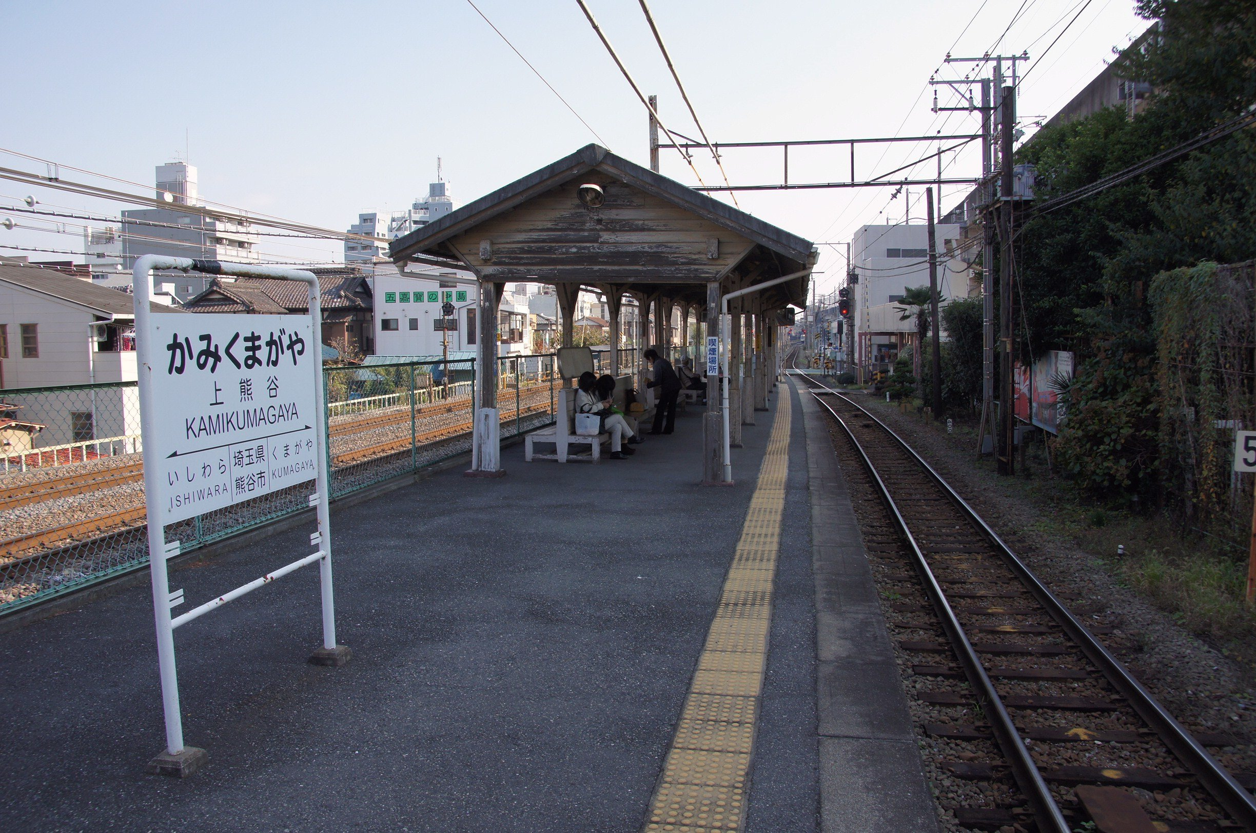 View of the platform (looking toward Kumagaya Station) at Kami-Kumagaya Station on the Chichibu Main Line in Saitama, Japan